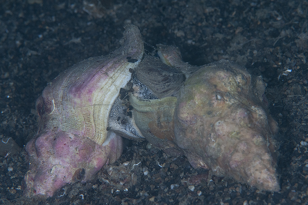 Two Kelletia lischkei at the Marine Science Center, Social Education Center, Tokai University